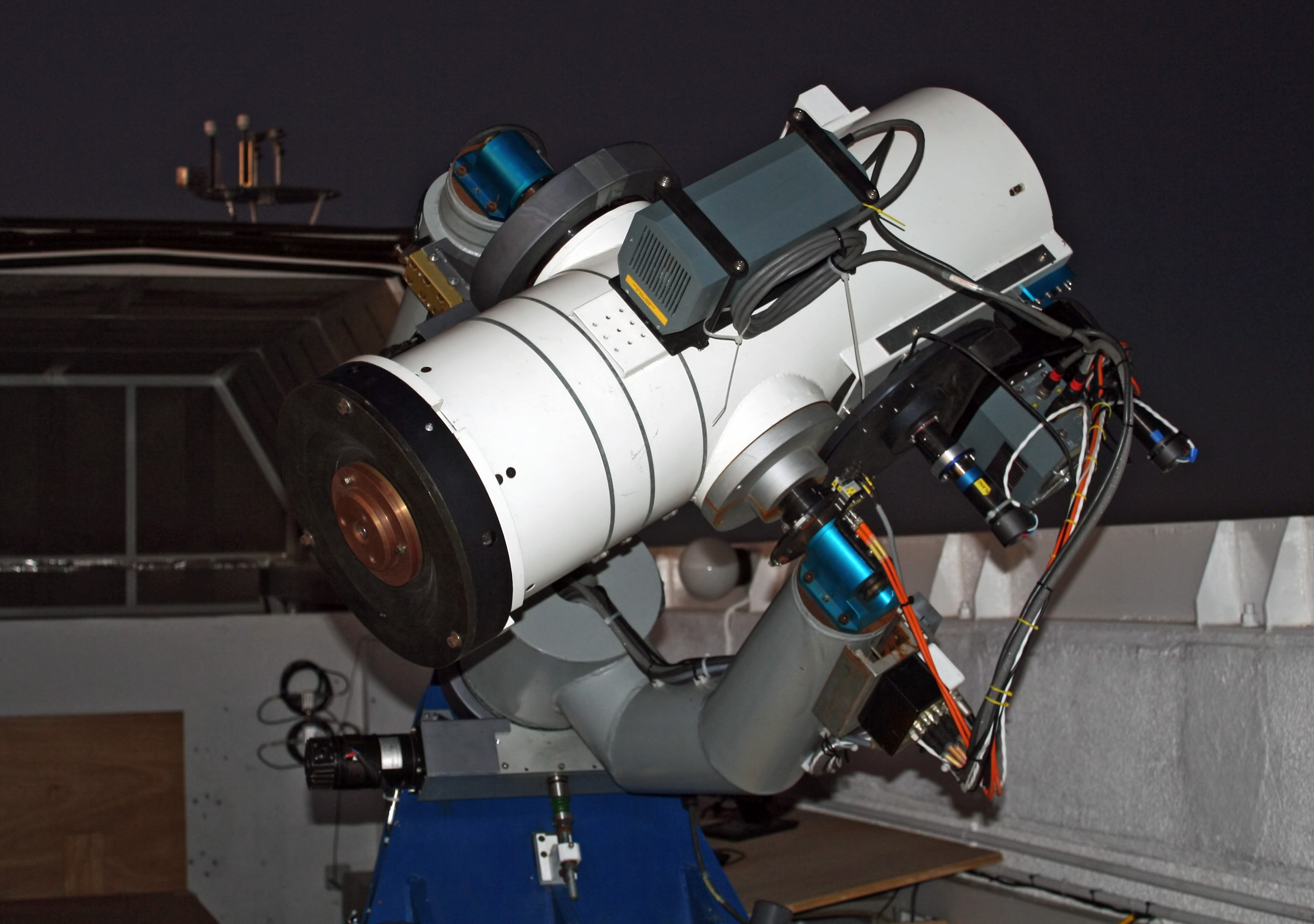 The 25cm TAROT telescope on La Silla is designed to react very quickly when a Gamma-ray burst is detected: 8sec after it receives the alert, TAROT will be observing it. This is critical, as the Gamma-ray bursts are very short events. A twin TAROT telescope is located on the Calern observatory, in France. Both are operated by a consortium lead by Michel Boër (Observatoire de Haute Provence). TAROT stands for Télescopes à Action Rapide pour les Objets Transitoires.